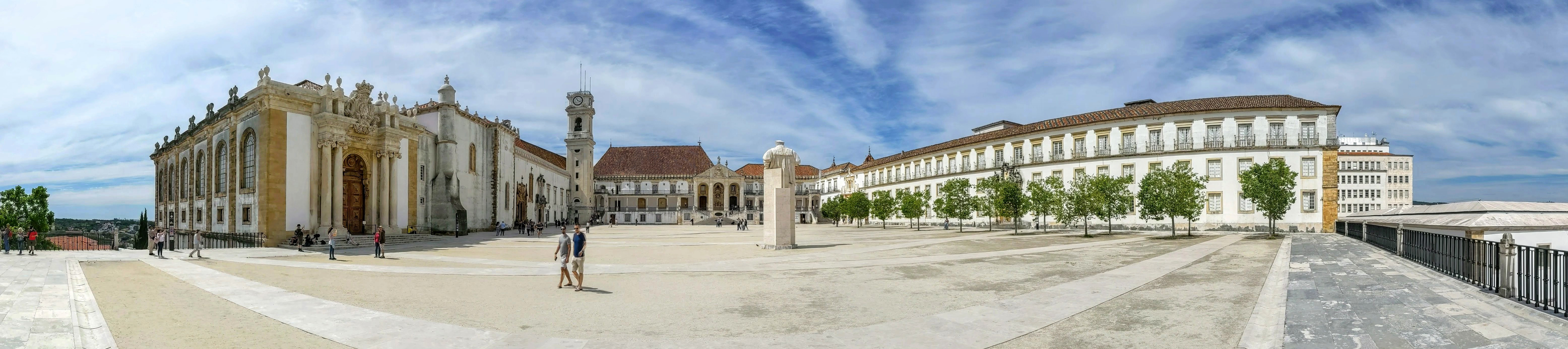 Panoramic view of Coimbra Paço das Escolas pano (Coimbra University courtyard) with Biblioteca Joanina (Joanina Library) at left